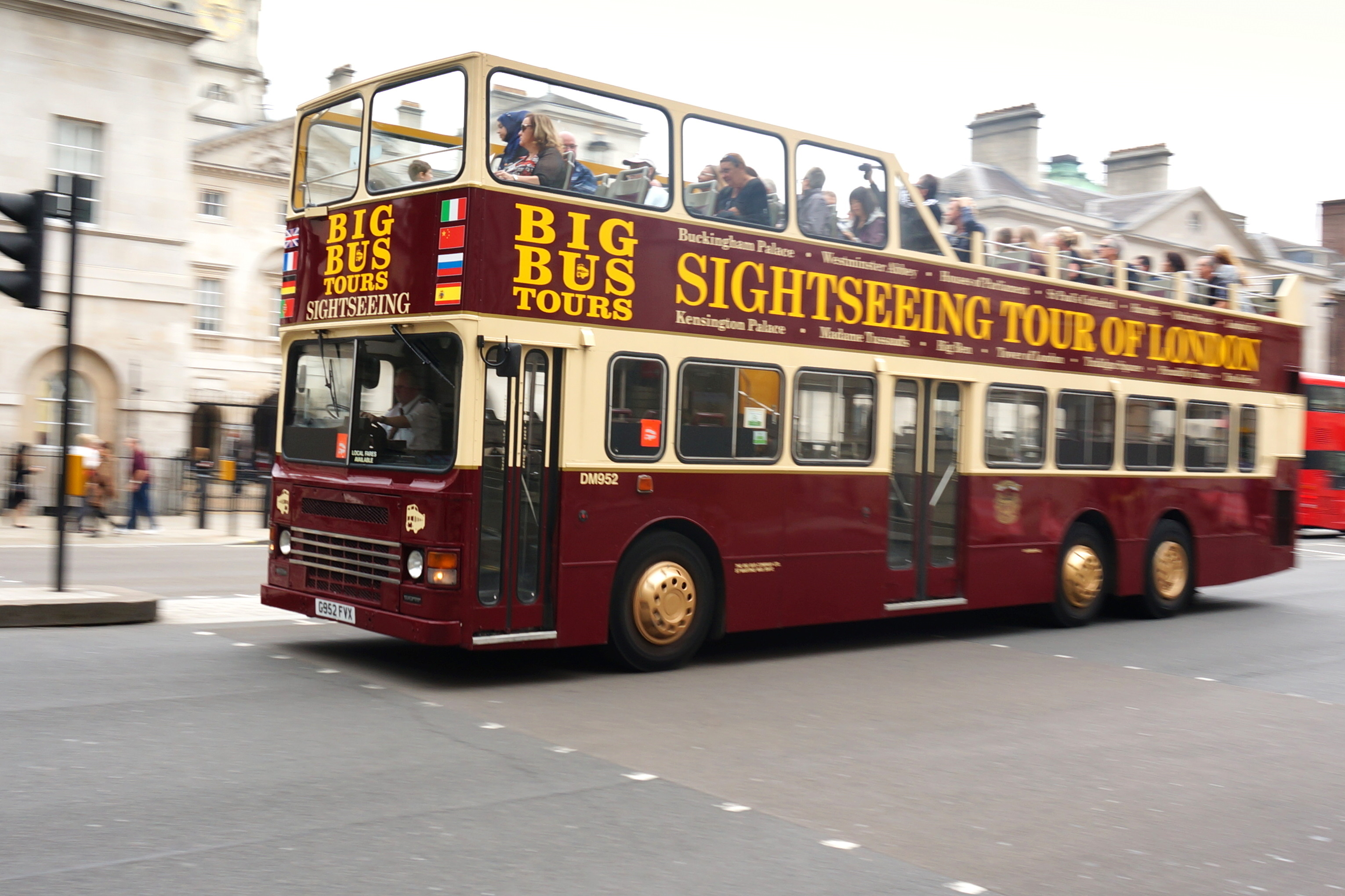 Second-hand Dennis Condor tour bus in London.